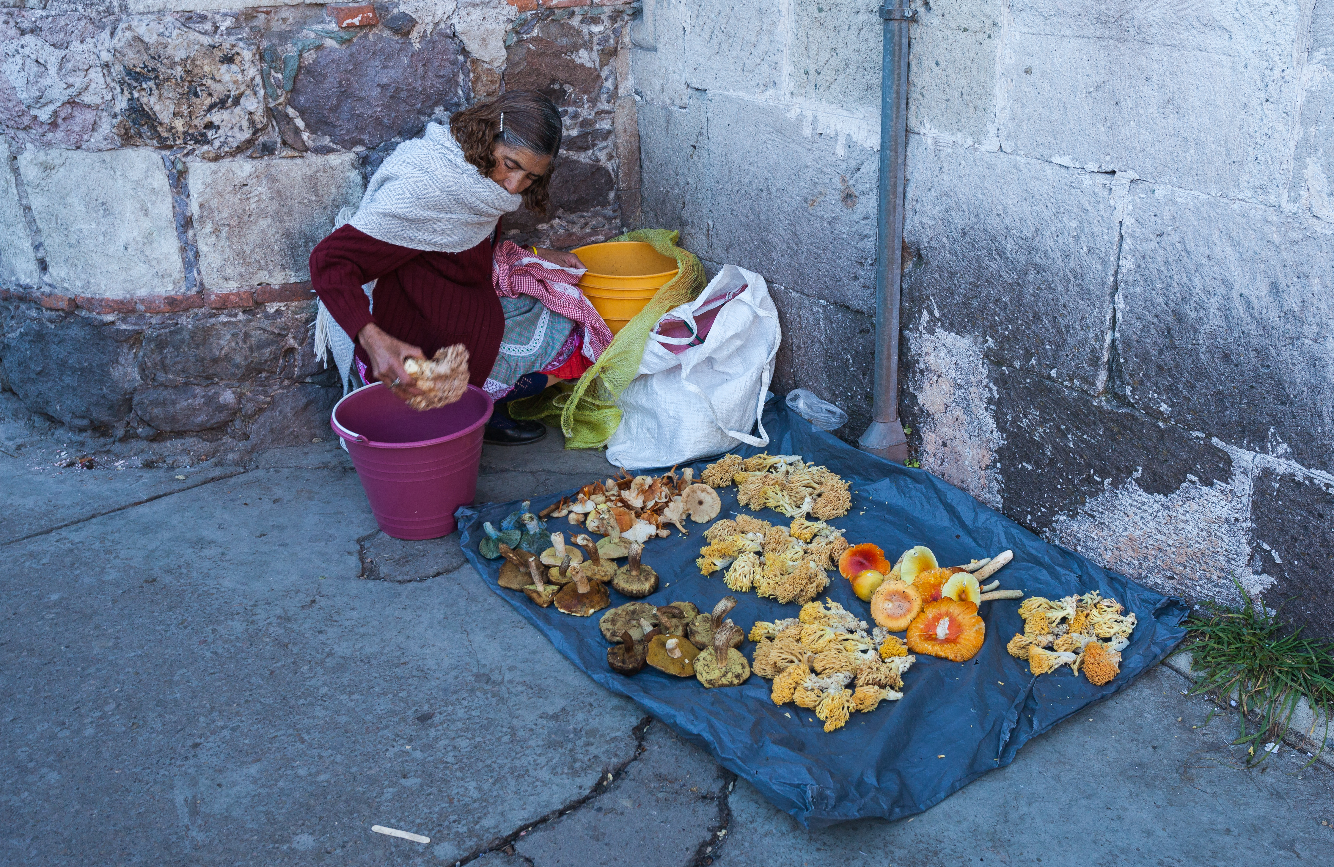 Street mushrooms seller, Pachuca, Hidalgo, Mexico